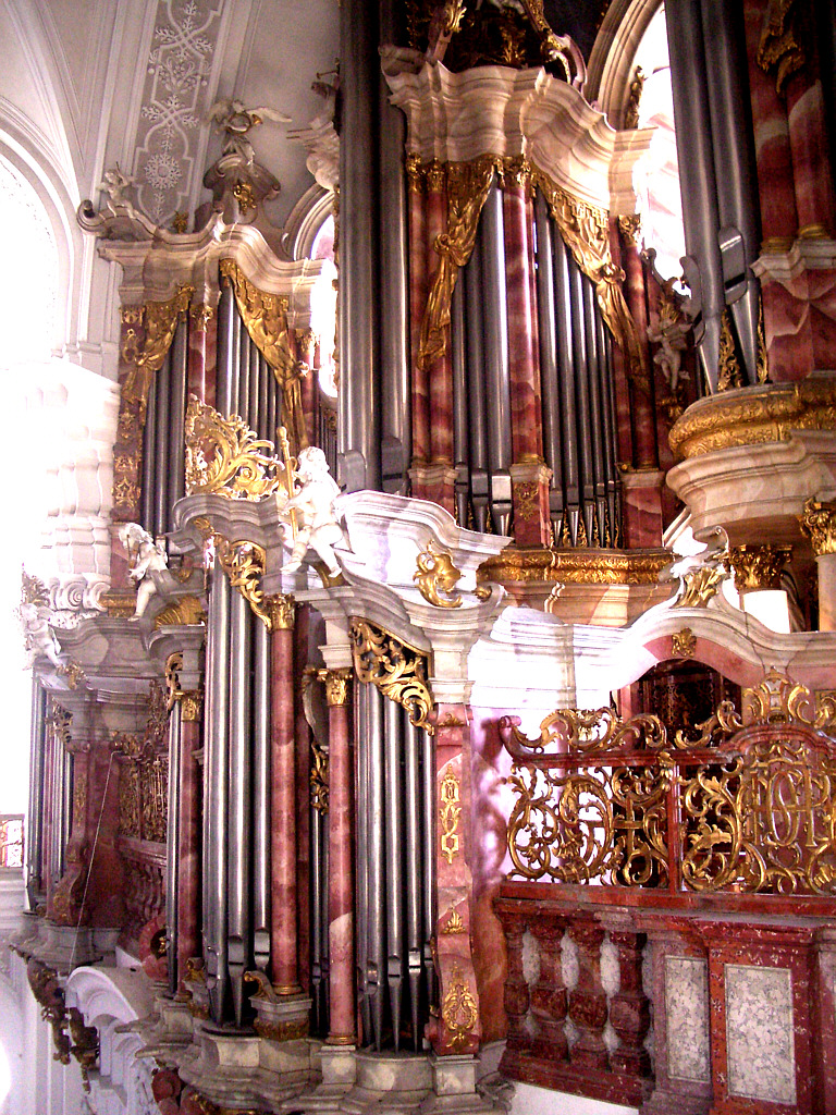 Weingarten, Germany: Basilika St. Martin, Organ by Joseph Gabler, view from the balcony